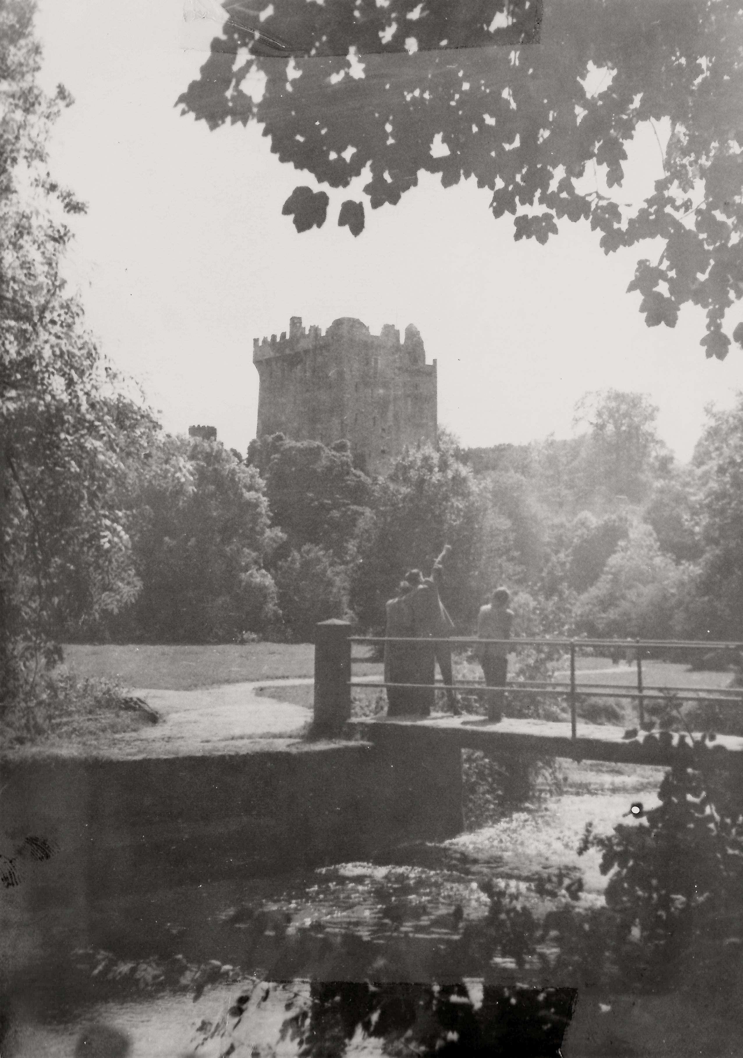 Blarney Castle, Summer 1954Gaeilge: Caisleán na Blarnan, Samhradh 1954